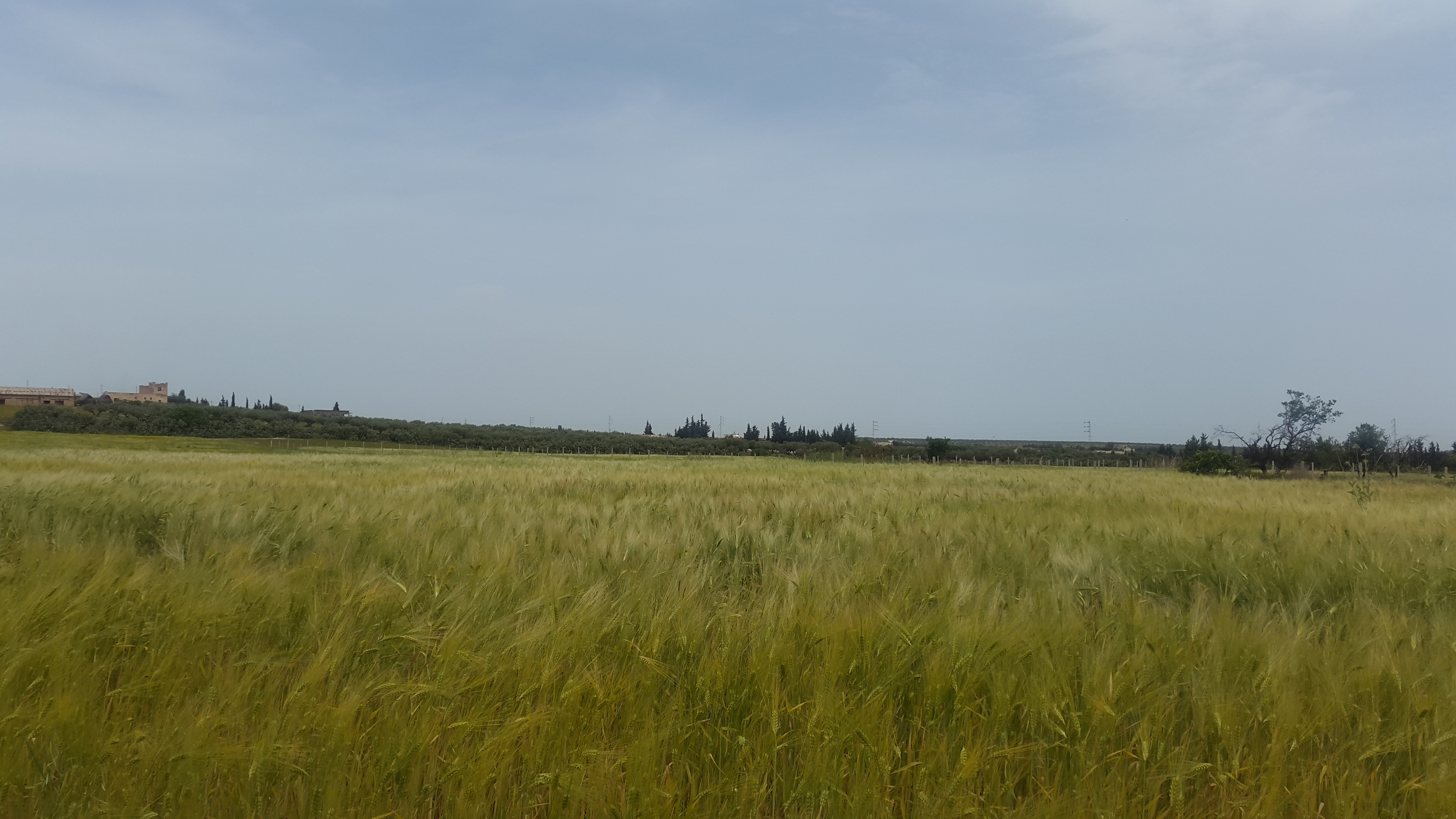 Furnos Minus site in Borj El Amri, Manouba